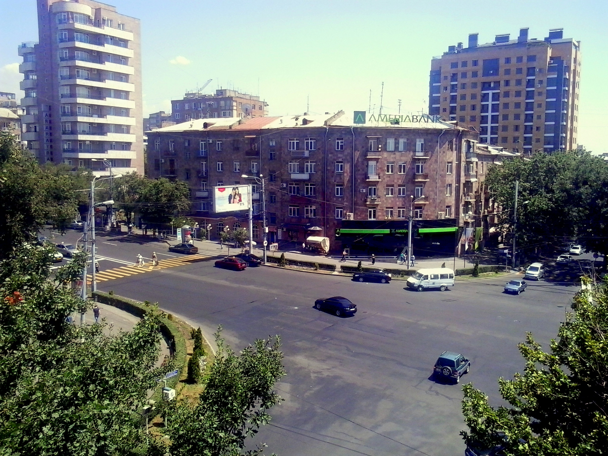 AmeriaBank, Komitas branch at Mher Mkrtchyan Square, Yerevan, Armenia.